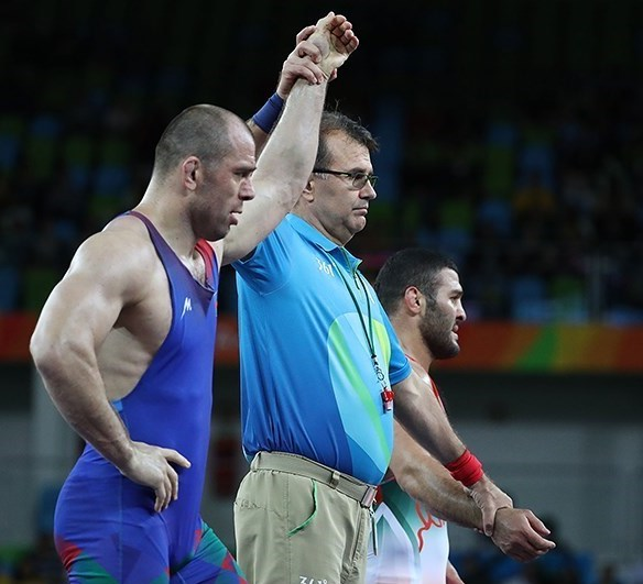 2016_Summer_Olympics,_Men's_Freestyle_Wrestling_97_kg_(Khetag Gazyumov and Reza Yazdani)